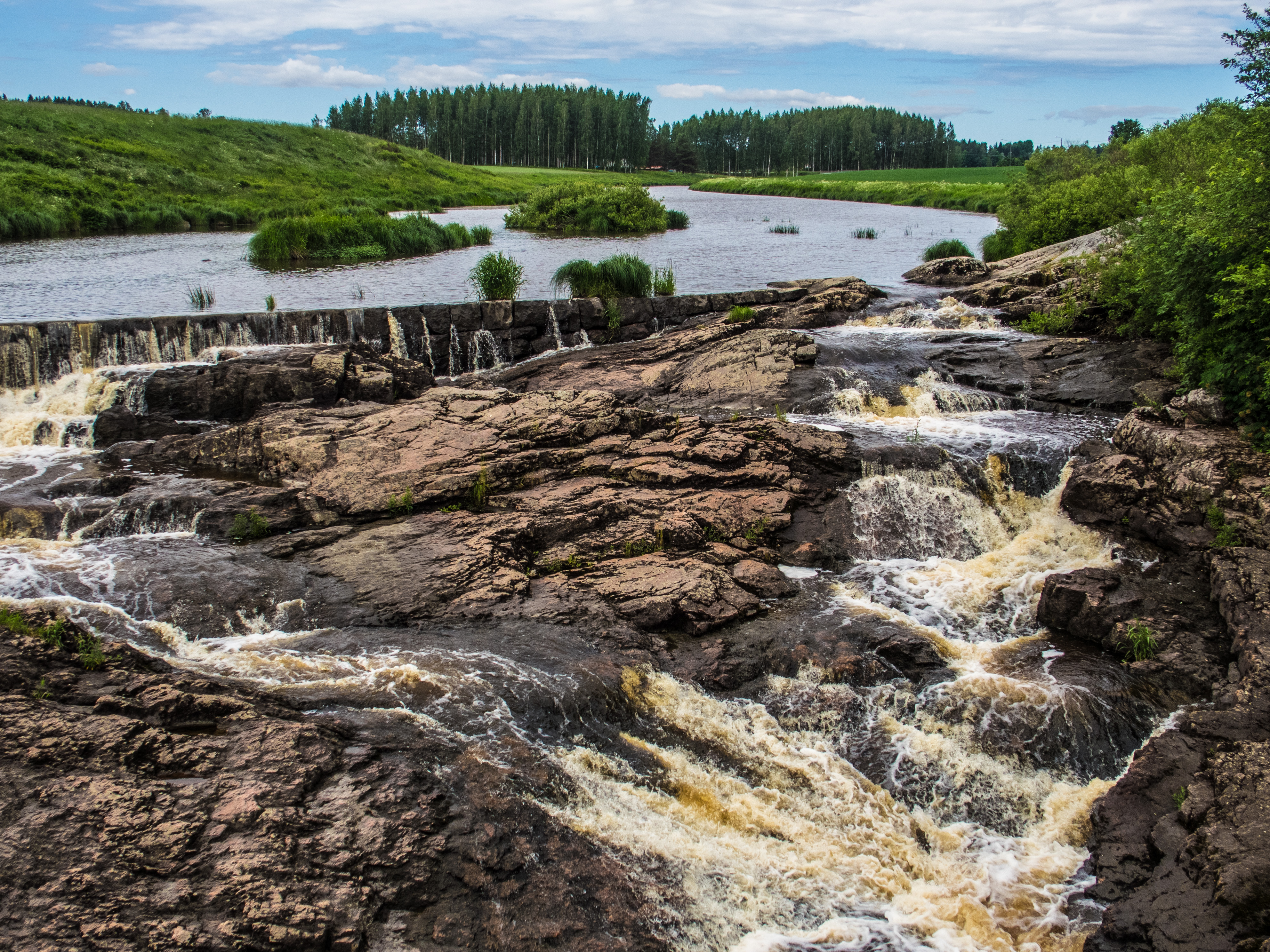 Nautela rapids in Lieto, Finland.